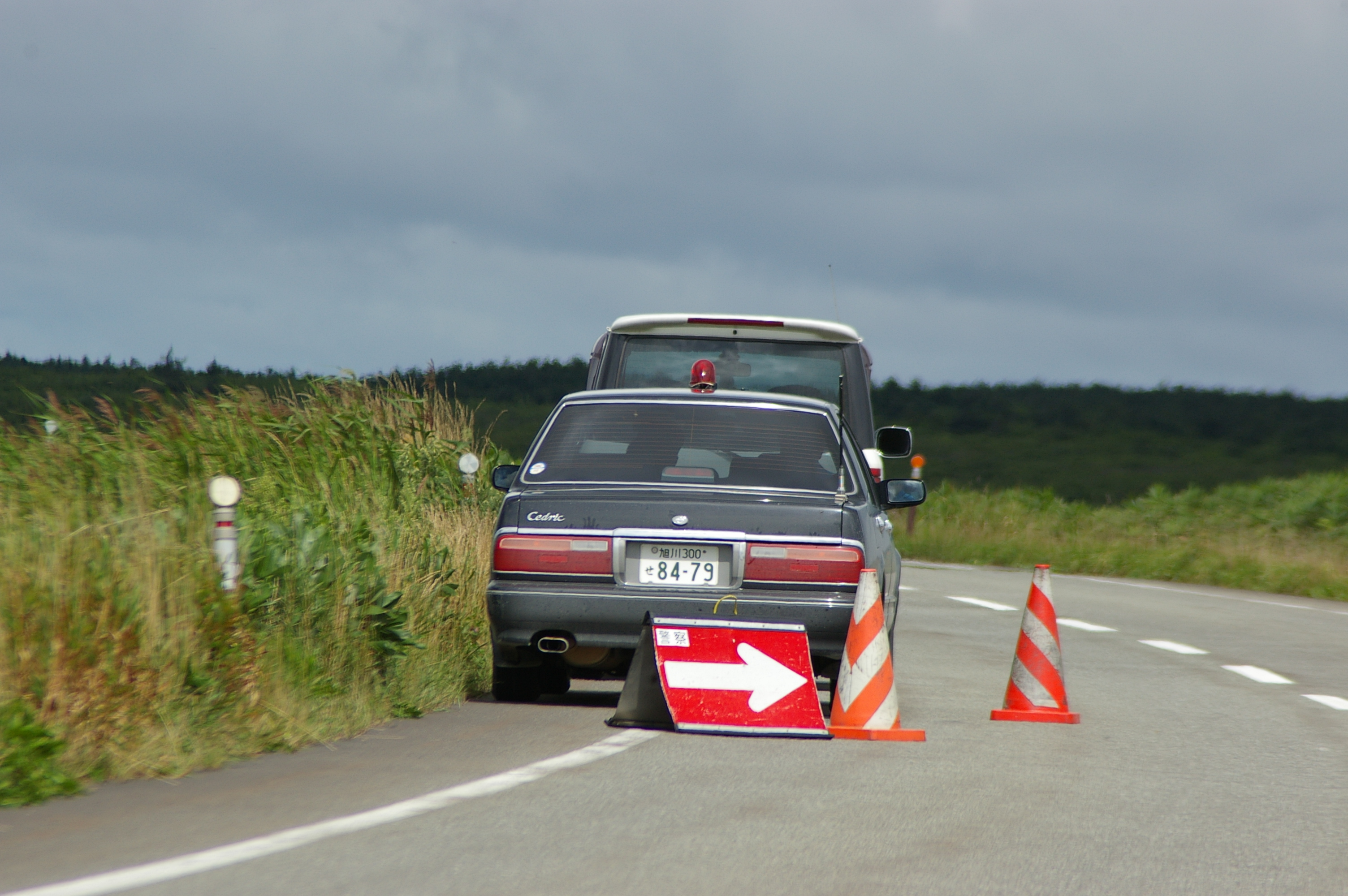 Nissan Cedric YPY31 fake patrolcar, Hokkaido police.With no necessity of hiding a licence plate.